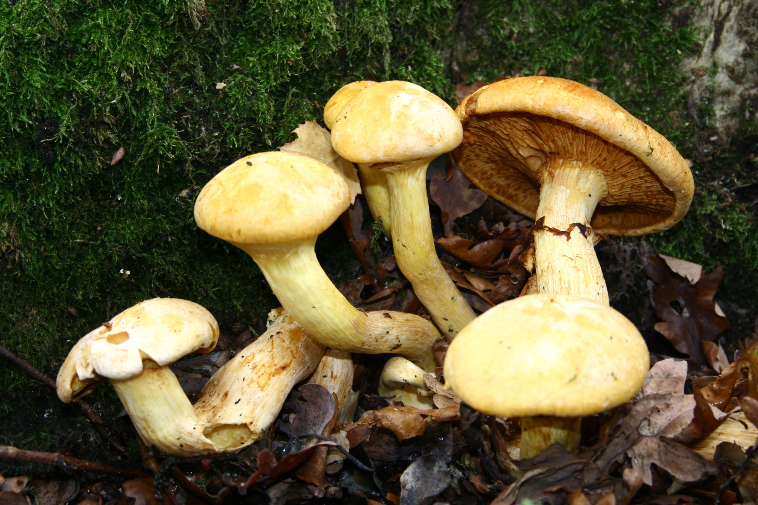 Gymnopilus junonius in a wood near Saulx-les-Chartreux, France.